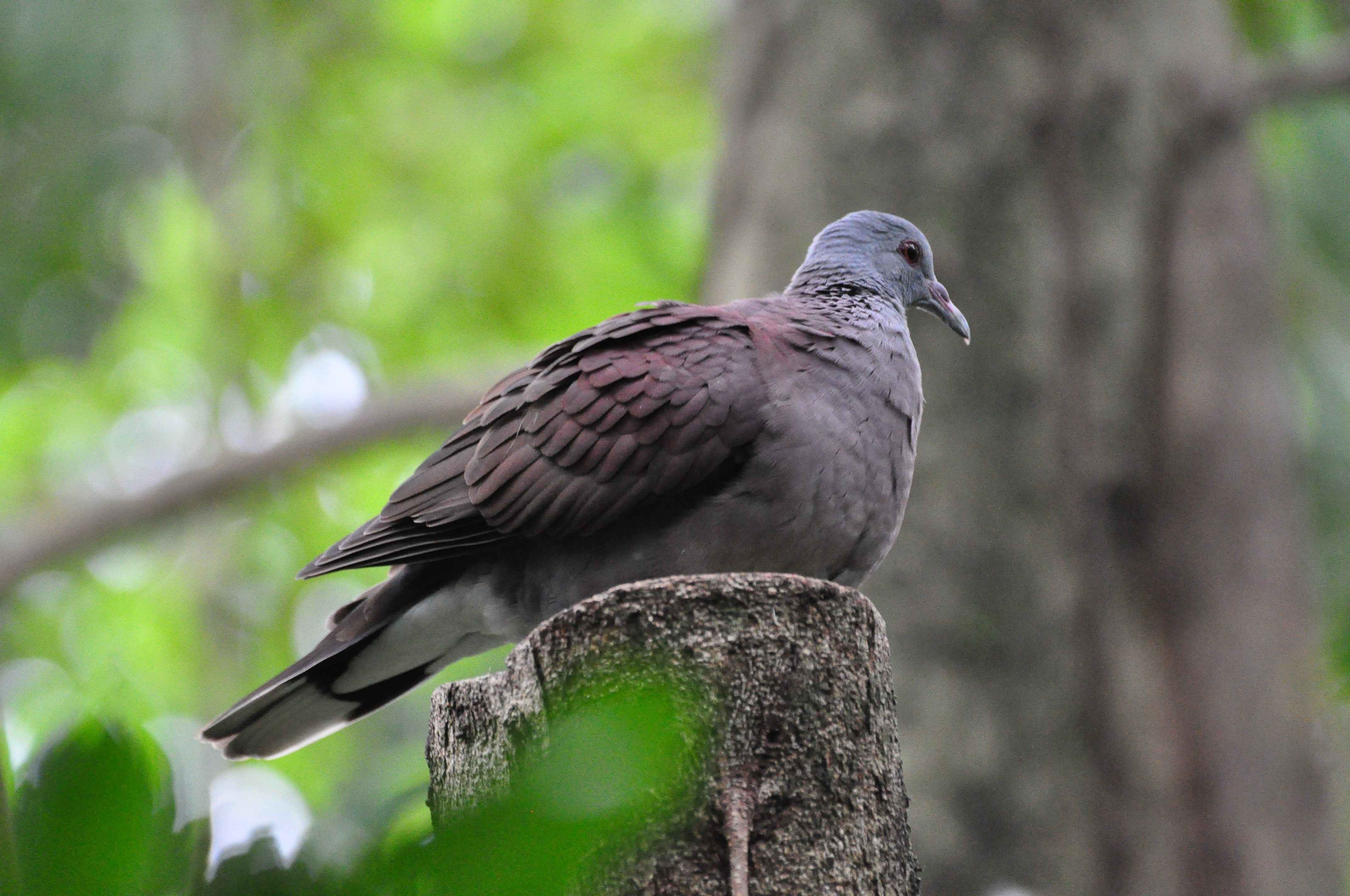 Nesoenas picturata, Masoala Halle Zoo Zürich (Switzerland)